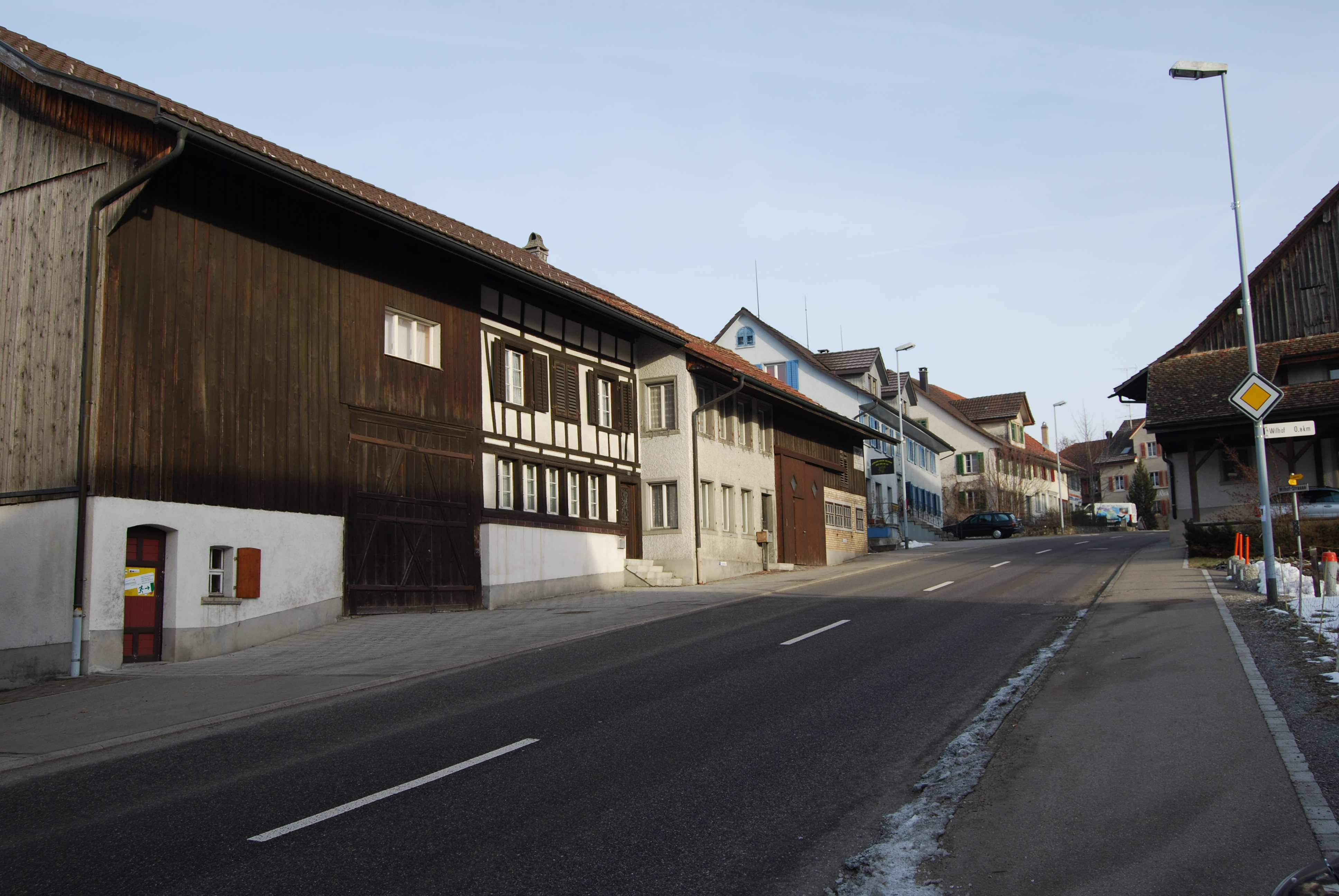 Main street of Russikon, canton of Zürich, SwitzerlandEsperanto: Ĉefstrato de Russikon, Kantono Zuriko, Svislando